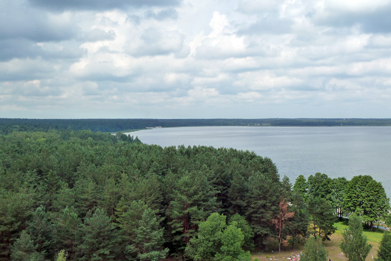 Stopu lake, Daugavpils, Latvia. 2010.